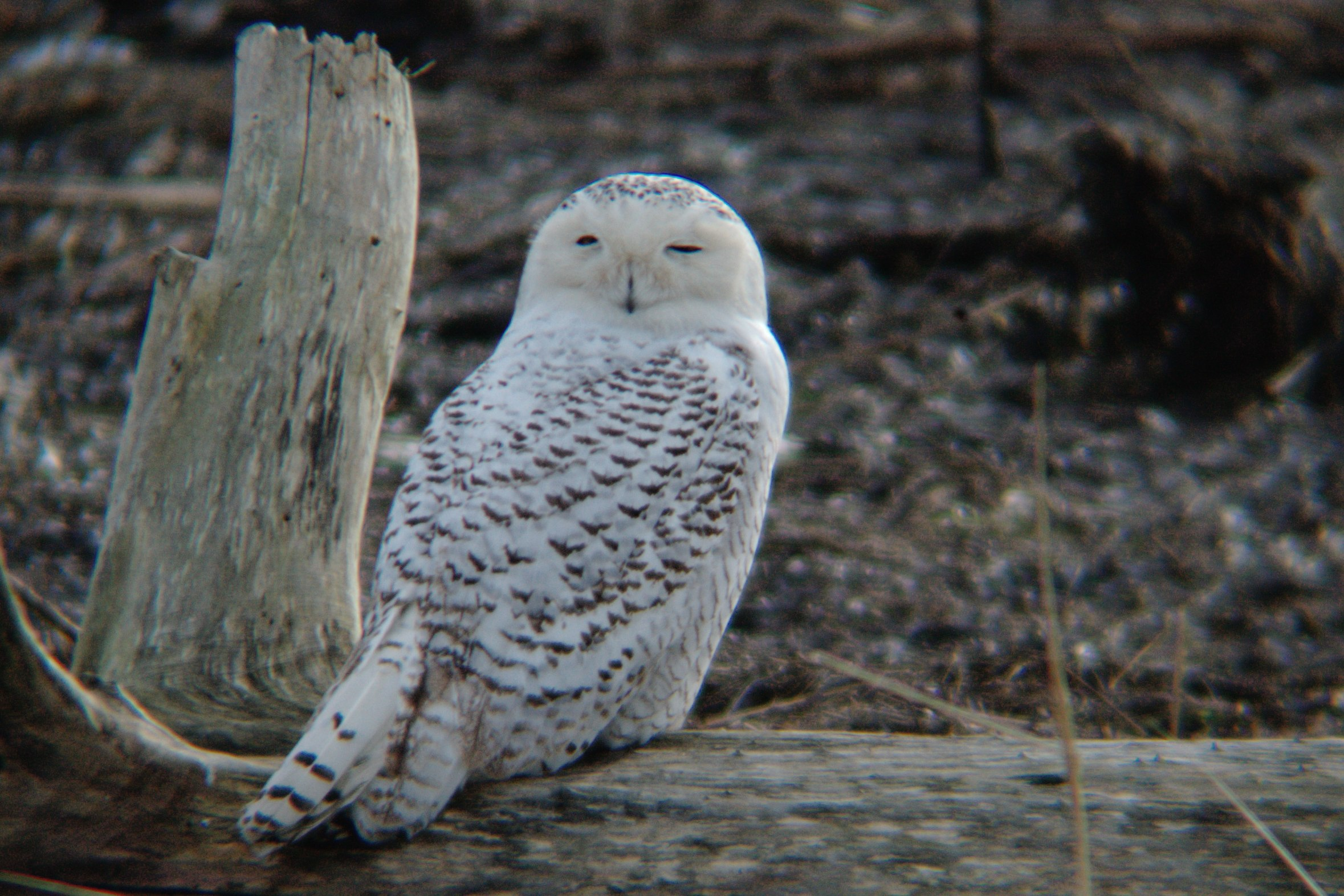 Snowy owl (Bubo scandiacus) in Vancouver, Canada